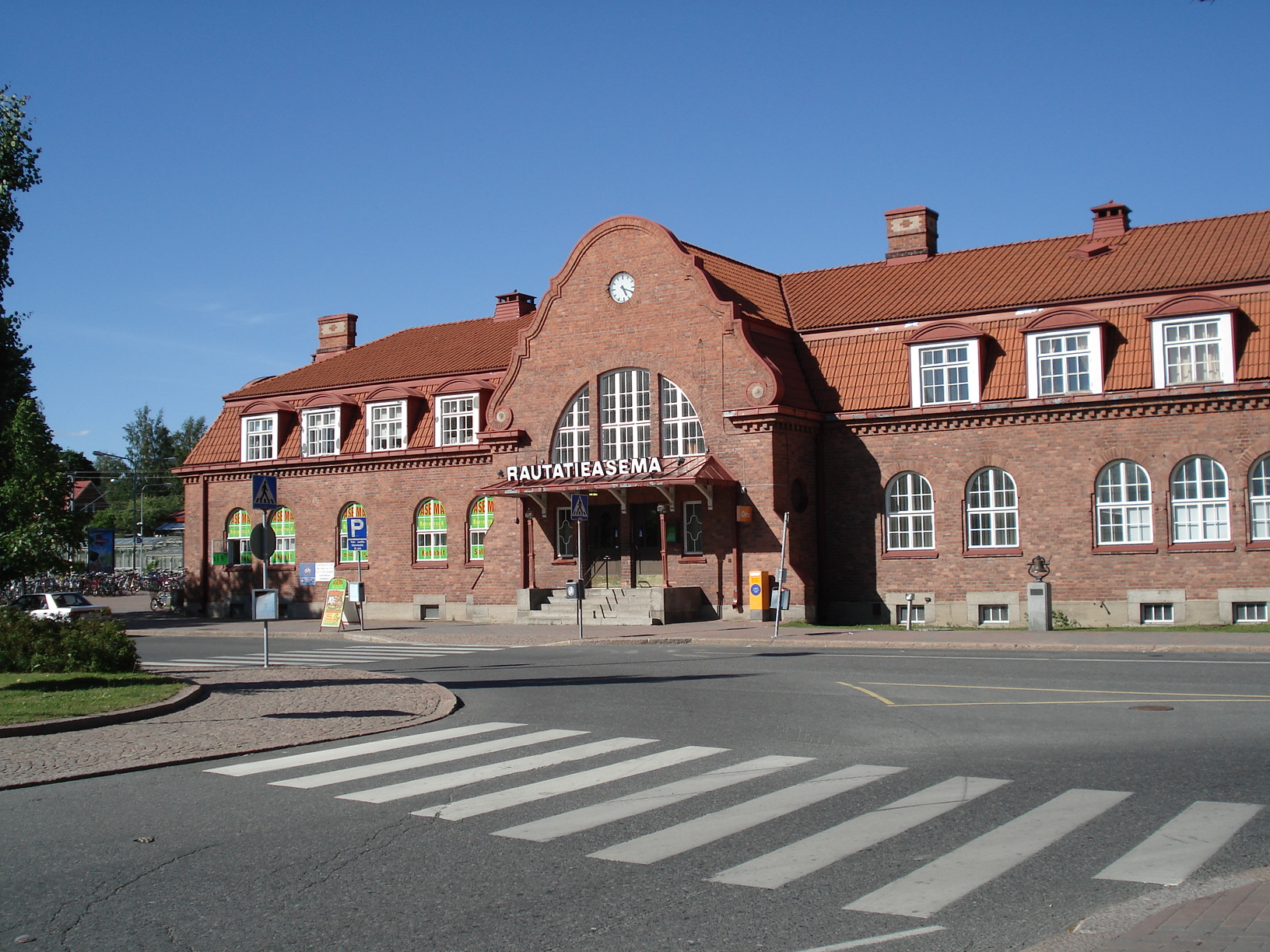 Hämeenlinna railway station in Hämeenlinna, Finland.